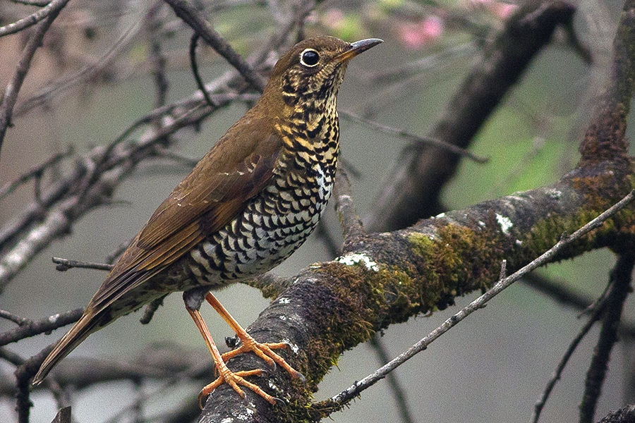 The species Zoothera mollissima (Alpine Thrush - Identification confirmed by Shashank Dalvi) had been photographed from Khangchendzonga Biosphere Reserve, West Sikkim in India on 16.02.2016.